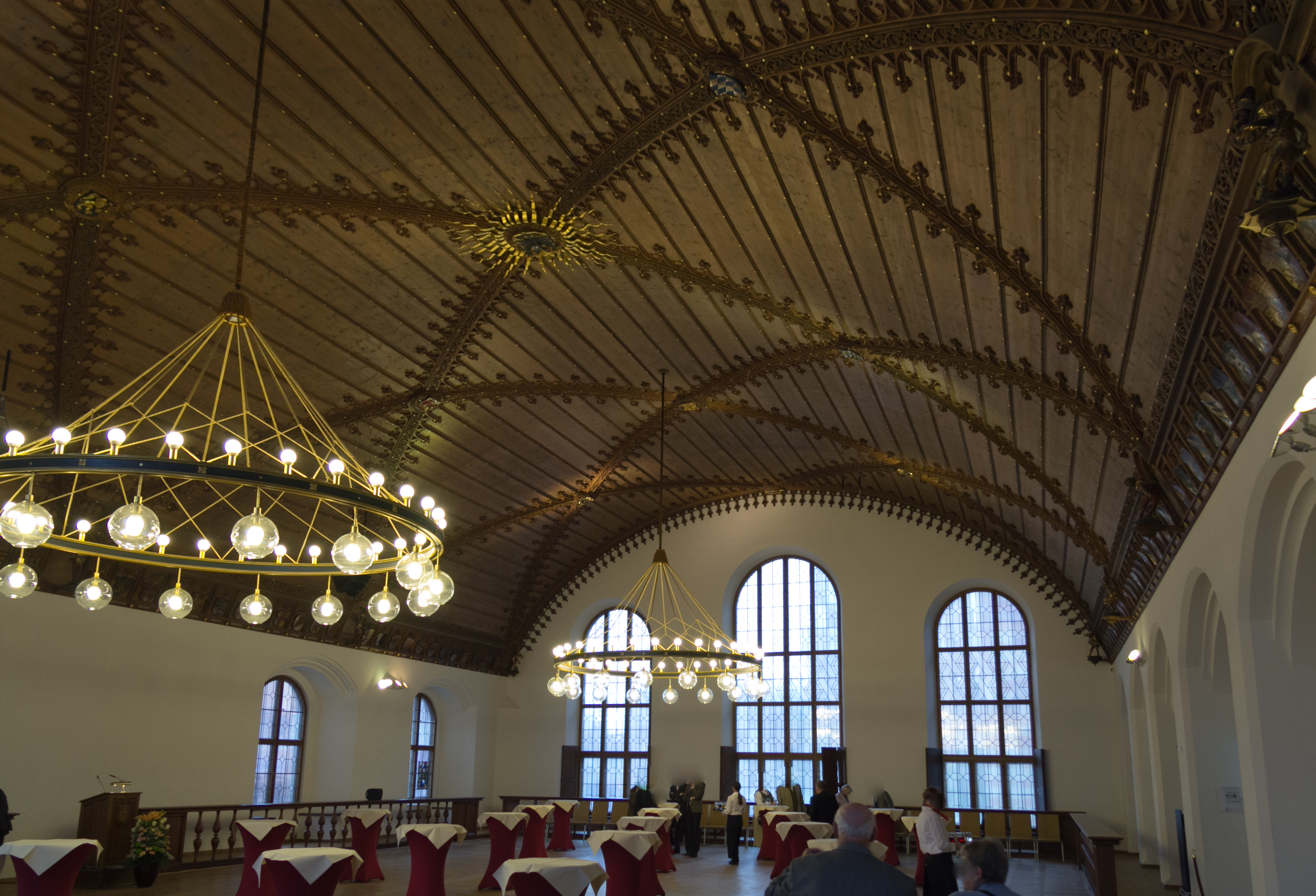 View to the decorated dancehall of the old townhall in Munich.